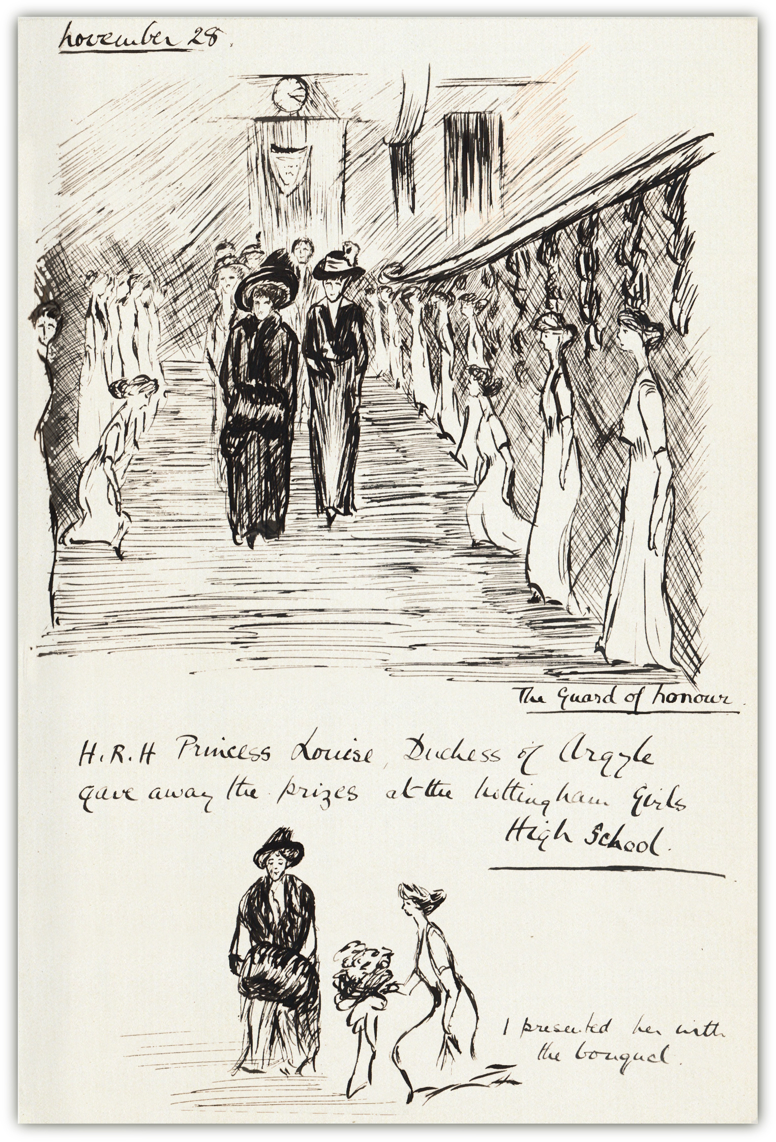 From the dairy kept by Janet Welch during her last 2 years at school in Nottingham